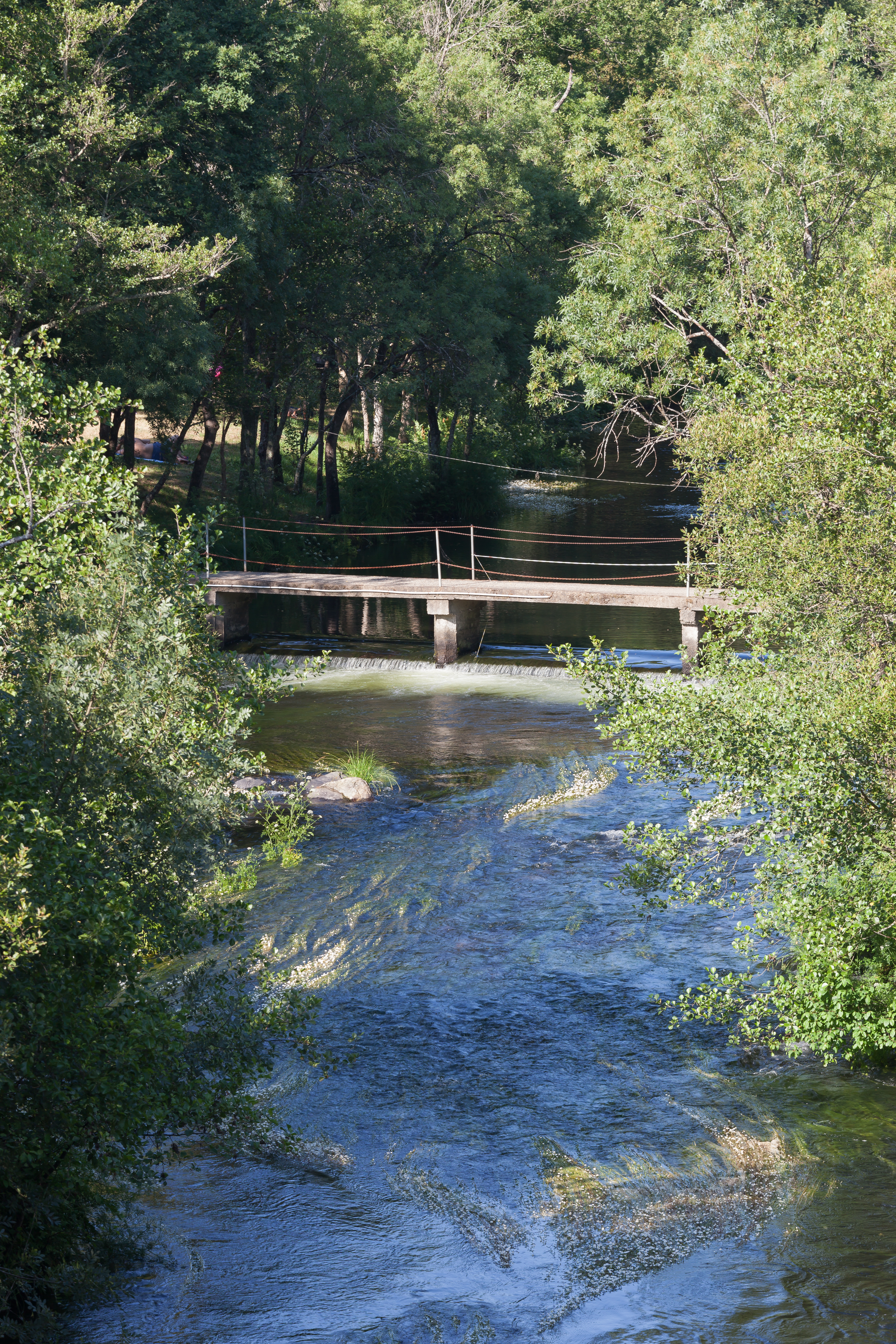 Islands of Gres, Ulla river. In Gres, Vila de Cruces, Galicia (Spain)